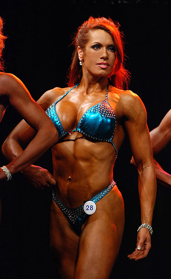 April Hunter in a fitness model competition